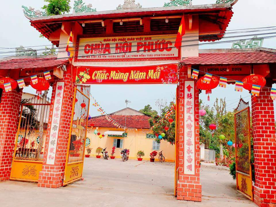 Hoi Phuoc Pagoda, 153, Tan Binh, Tan Thanh, Lai Vung, Dong Thap